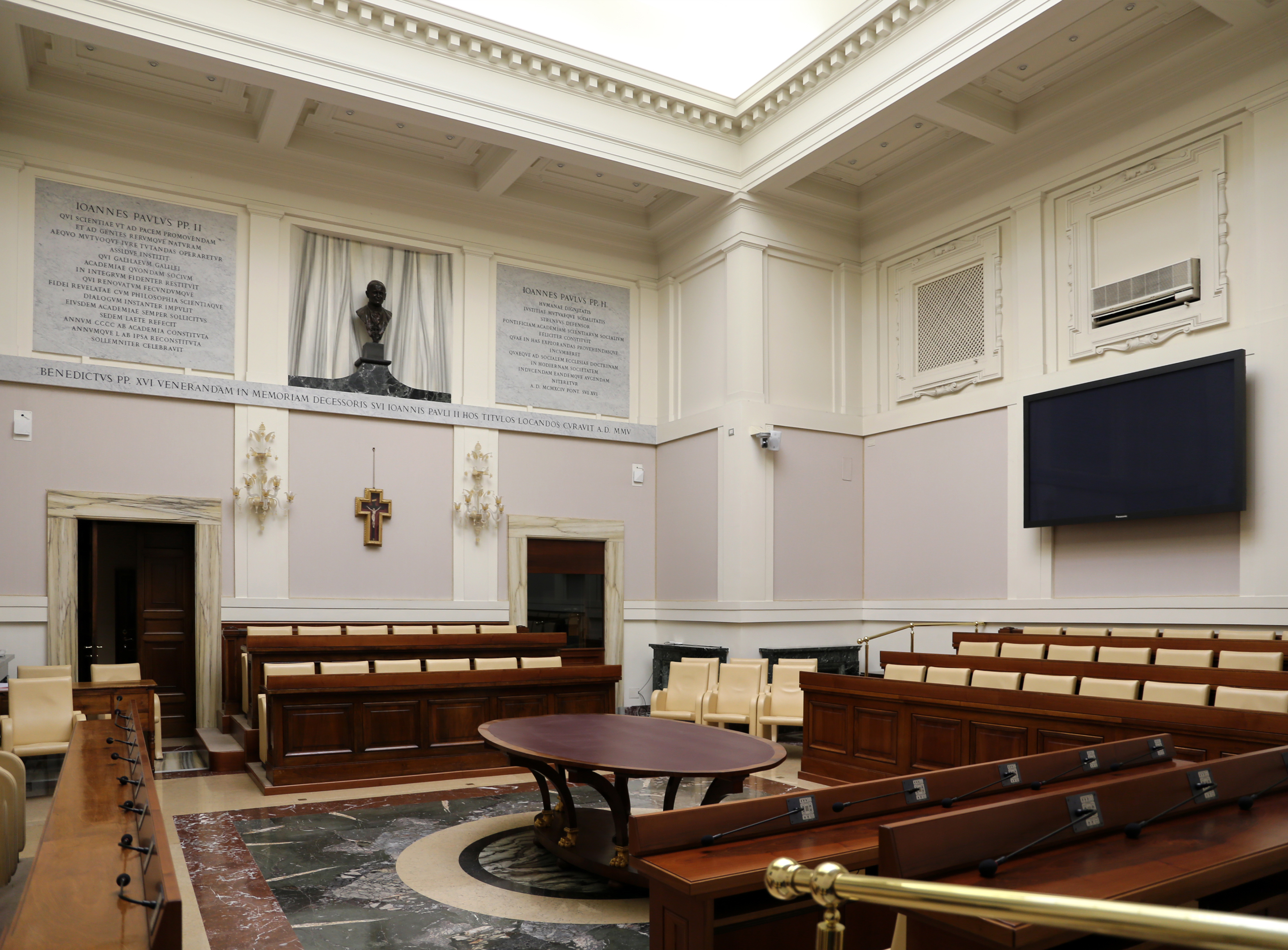 Casino di Pio IV